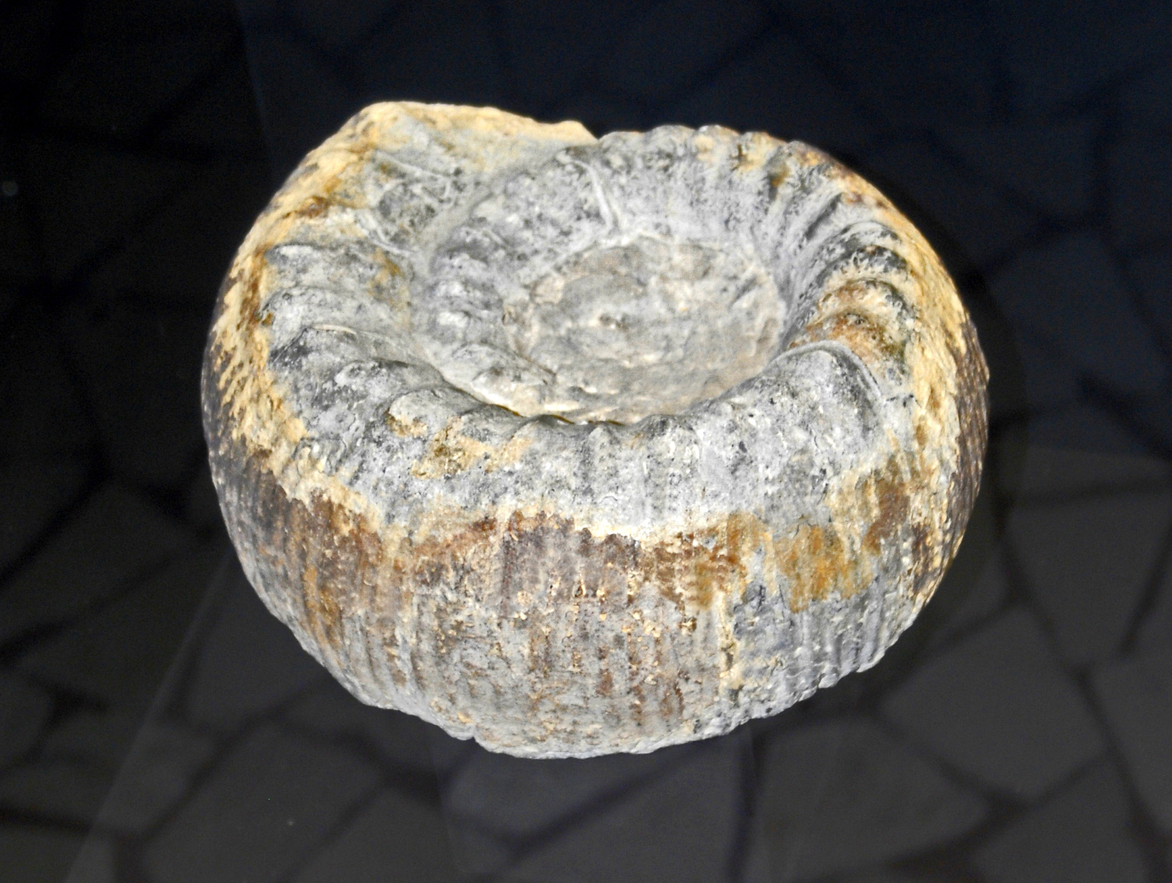 Stephanoceras blagdeni from Mid Jurassic - Germany. On display at Museo di Scienze Naturali Enrico Caffi, Bergamo